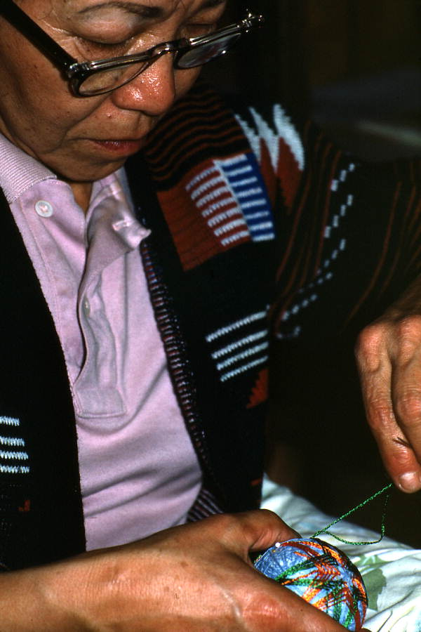 Local call number: fs861347 Title: [Kazuko Law making temari: Gulf Breeze, Florida] Personal Author: Owen, Blanton, Collector. Date: Photographed in February 1985. Physical descrip: 1 slide : col. Series Title: ( General note: Temari are a Japanese craft. The temari is a ball made of thread which used to be given to children as a toy. However, it is now used for decorative purposes only. Repository: 500 S. Bronough St., Tallahassee, FL 32399-0250 USA. Contact: 850-245-6700. Persistent URL